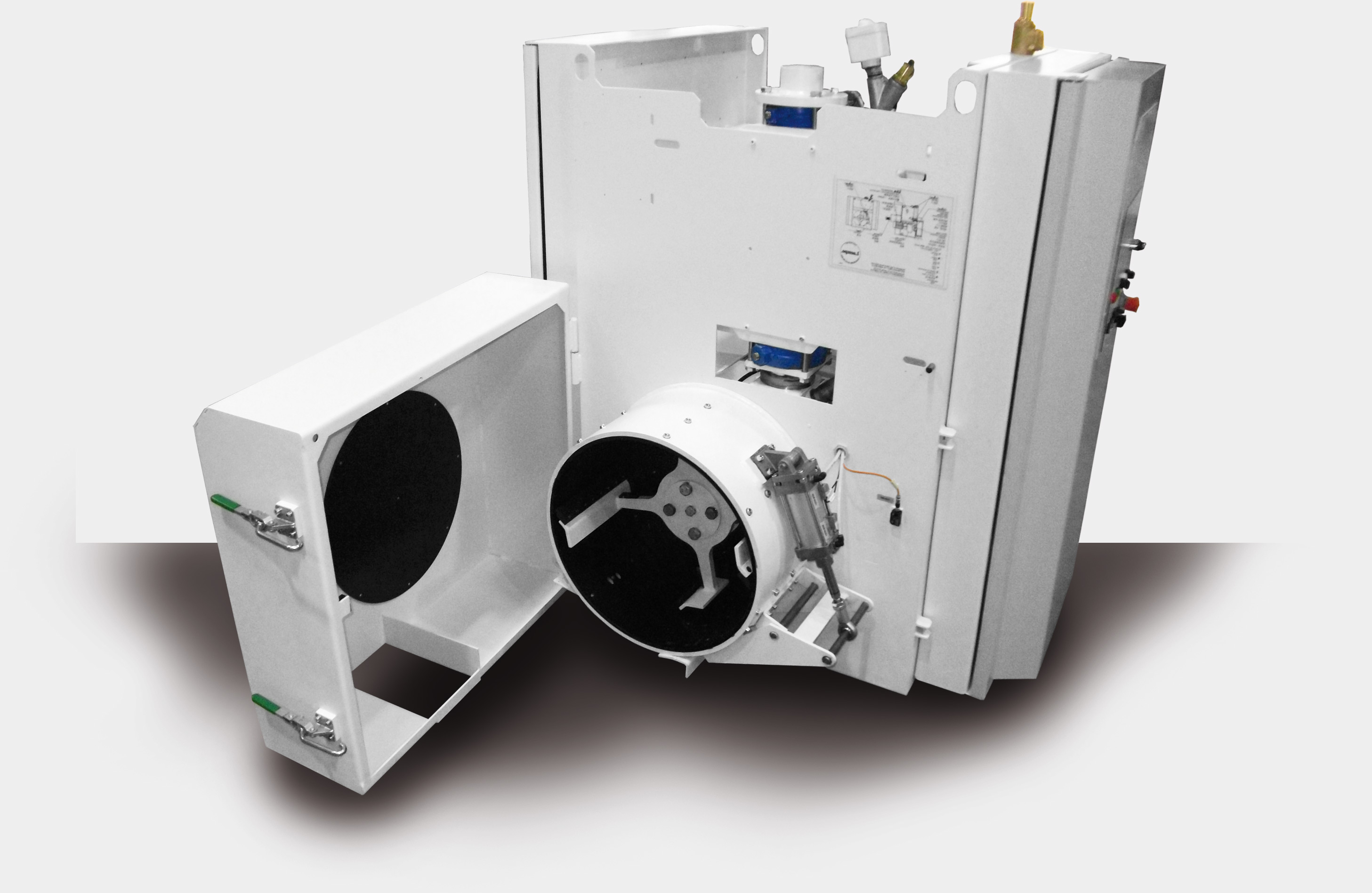 Coresandmixer